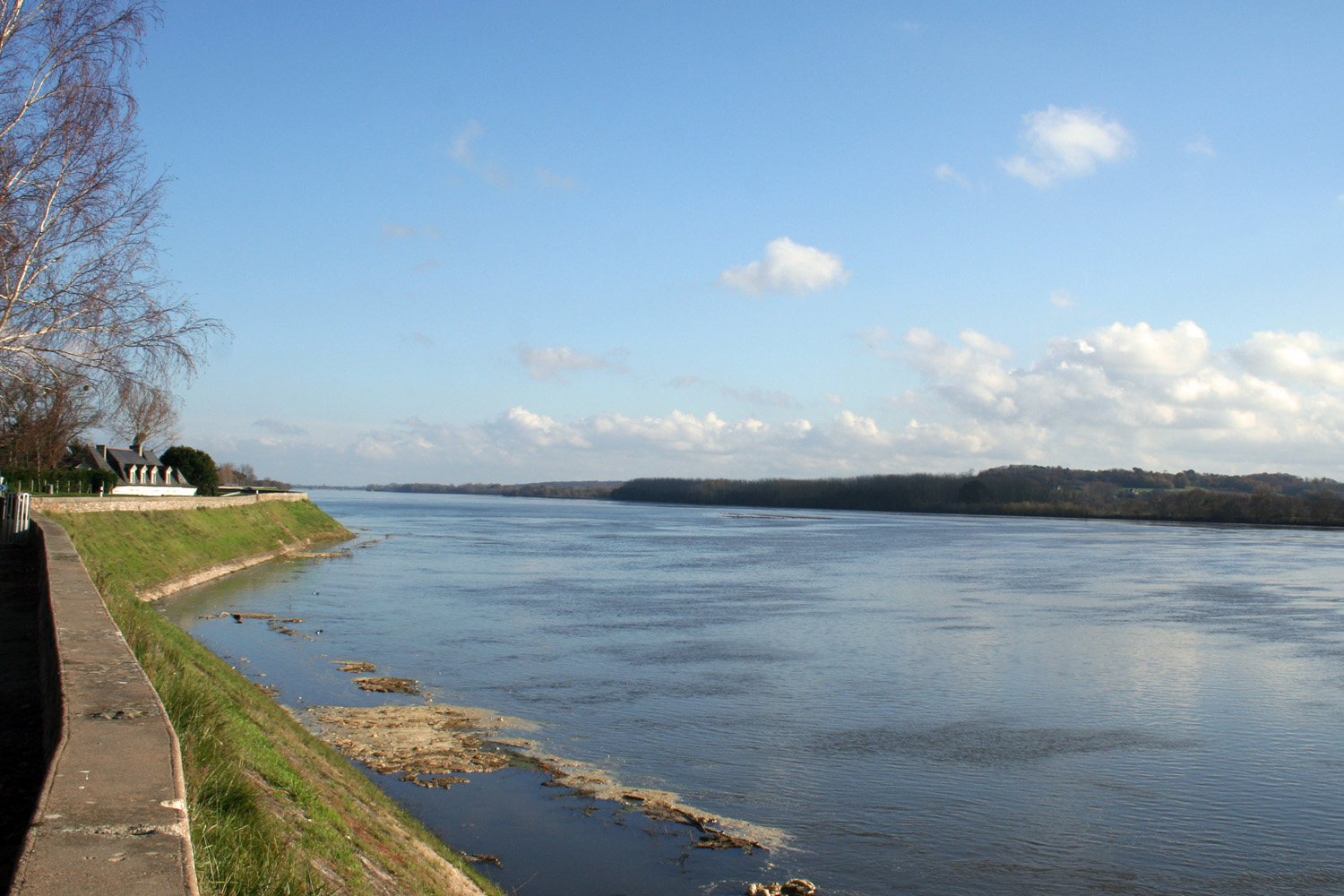 The Loire river, a few kilometers uphill Angers.